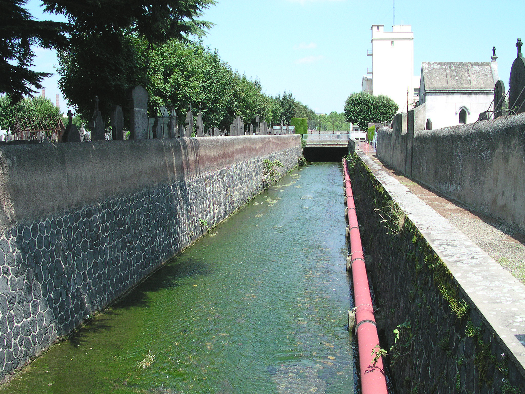 Tiretaine river at Clermont-Ferrand. Picture taken from the bridge in the Carmes cimetery Auteur/Author : Romary 08 juillet/July 2006